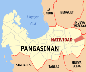 Map of Pangasinan showing the location of Natividad